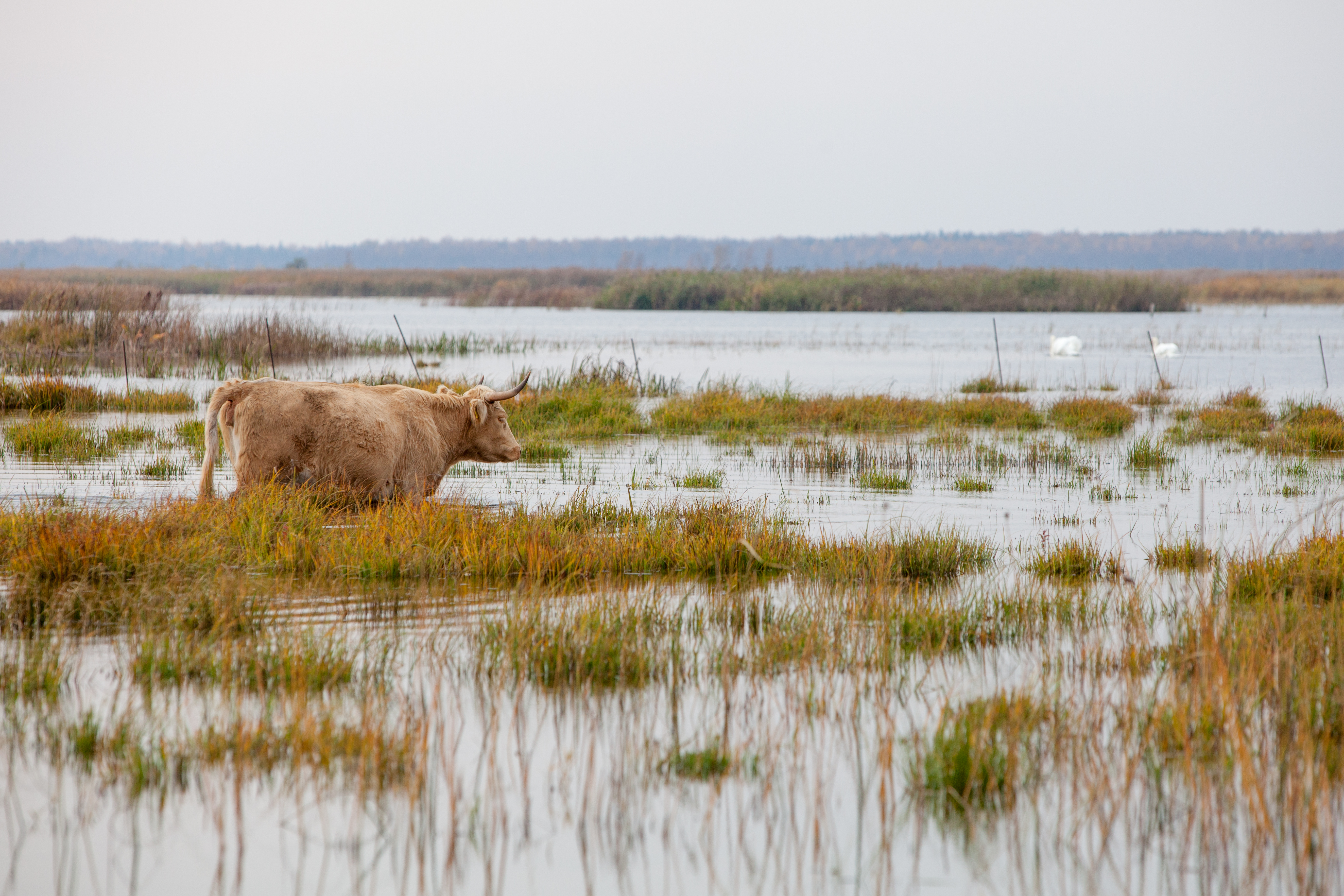 Wild Highland cattle in the floodplains of Engure lake. Engure lake nature park.